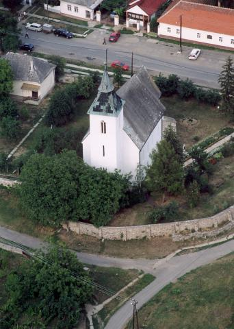 Vizsoly, temple, Hungary, aerialphotography